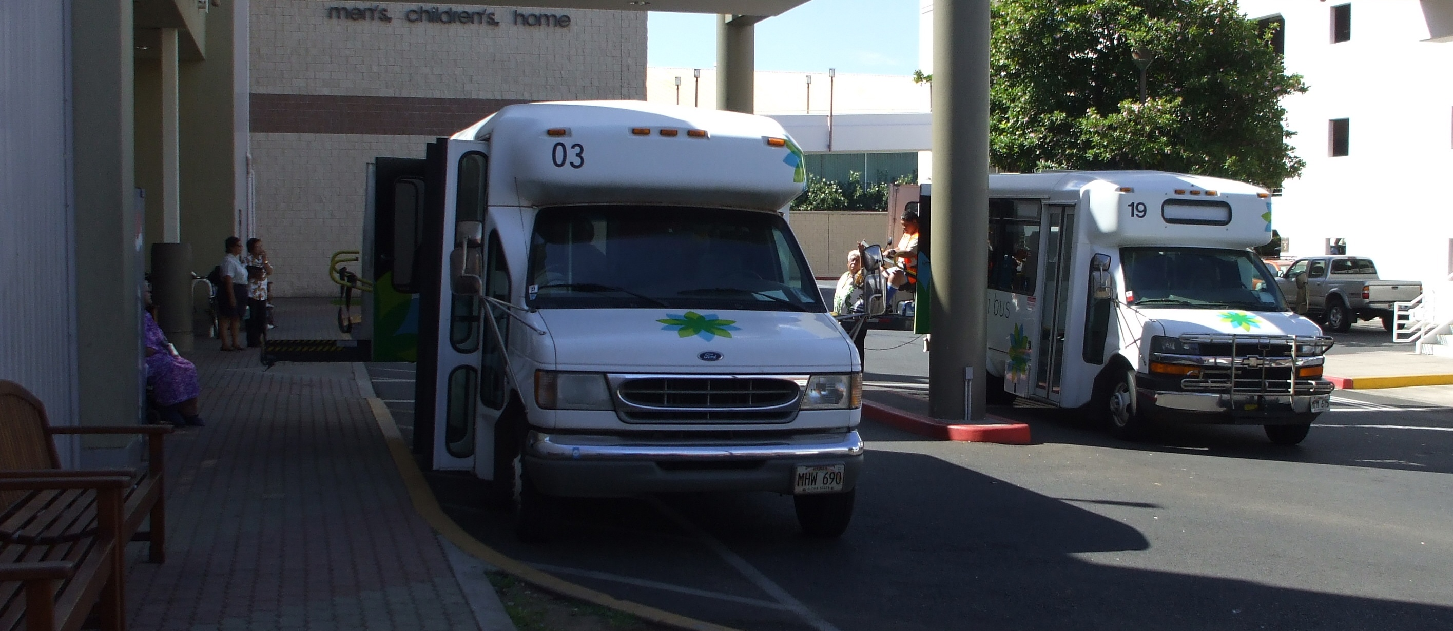 Two Maui Bus ElDorado International Aerolites engaged in Paratransit services.